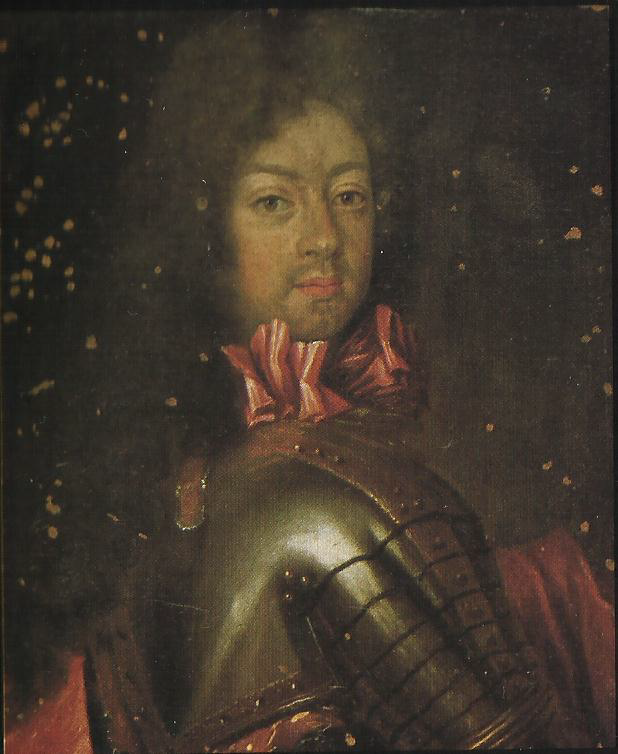 Tristão da Cunha de Ataíde e Melo, 1st Count of Povolide (1655-1722)